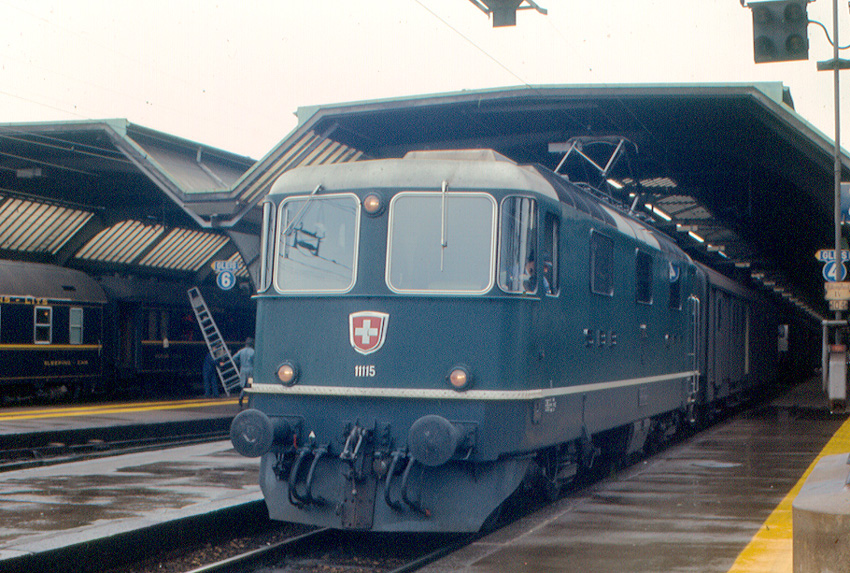 Re 4/4 II electric locomotive at Zürich Hauptbahnhof (main station). This class was built from 1964 to 1985. In all, 276 were built, and most are still in service. It was used mainly for passenger trains. It followed the Re4.4 I, which was first built in 1946.